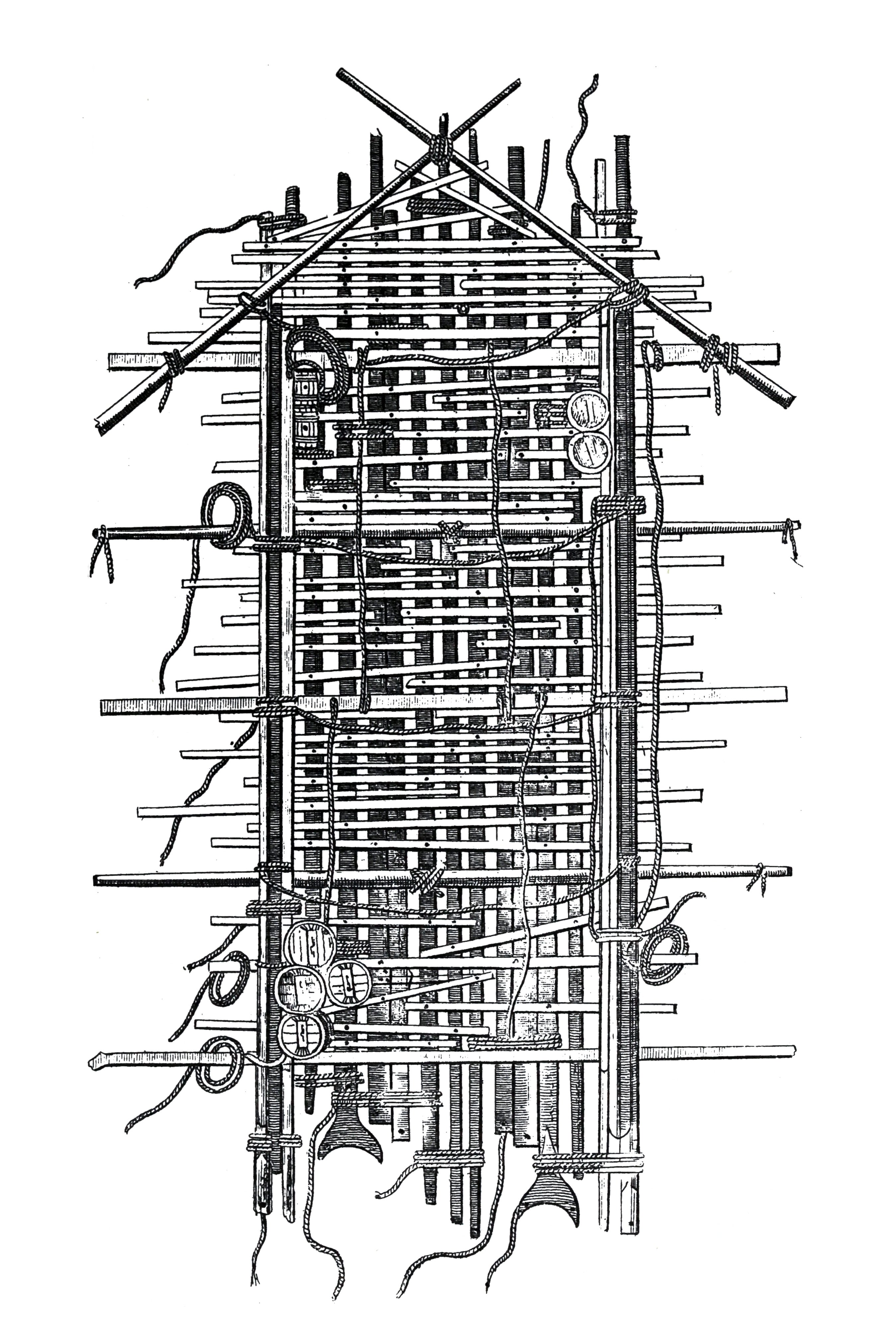 Layout of the raft of the frigate Méduse